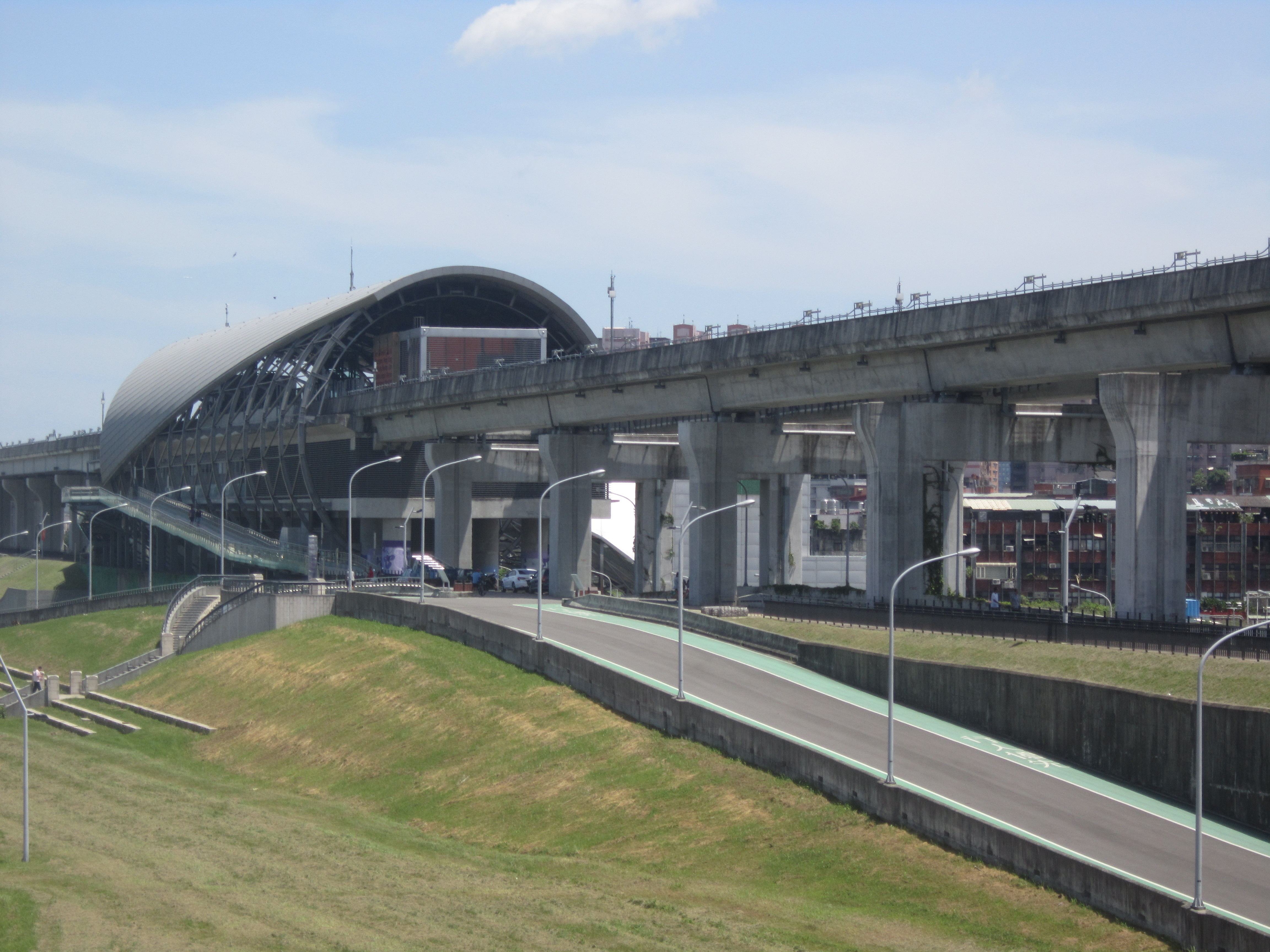 Taoyuan MRT A2 Sanchong Station